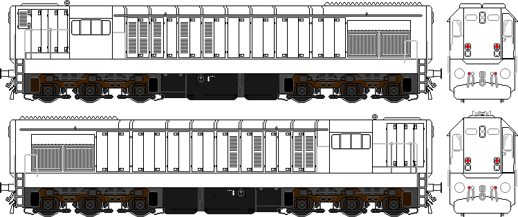 HŽ 2061 series locomotive